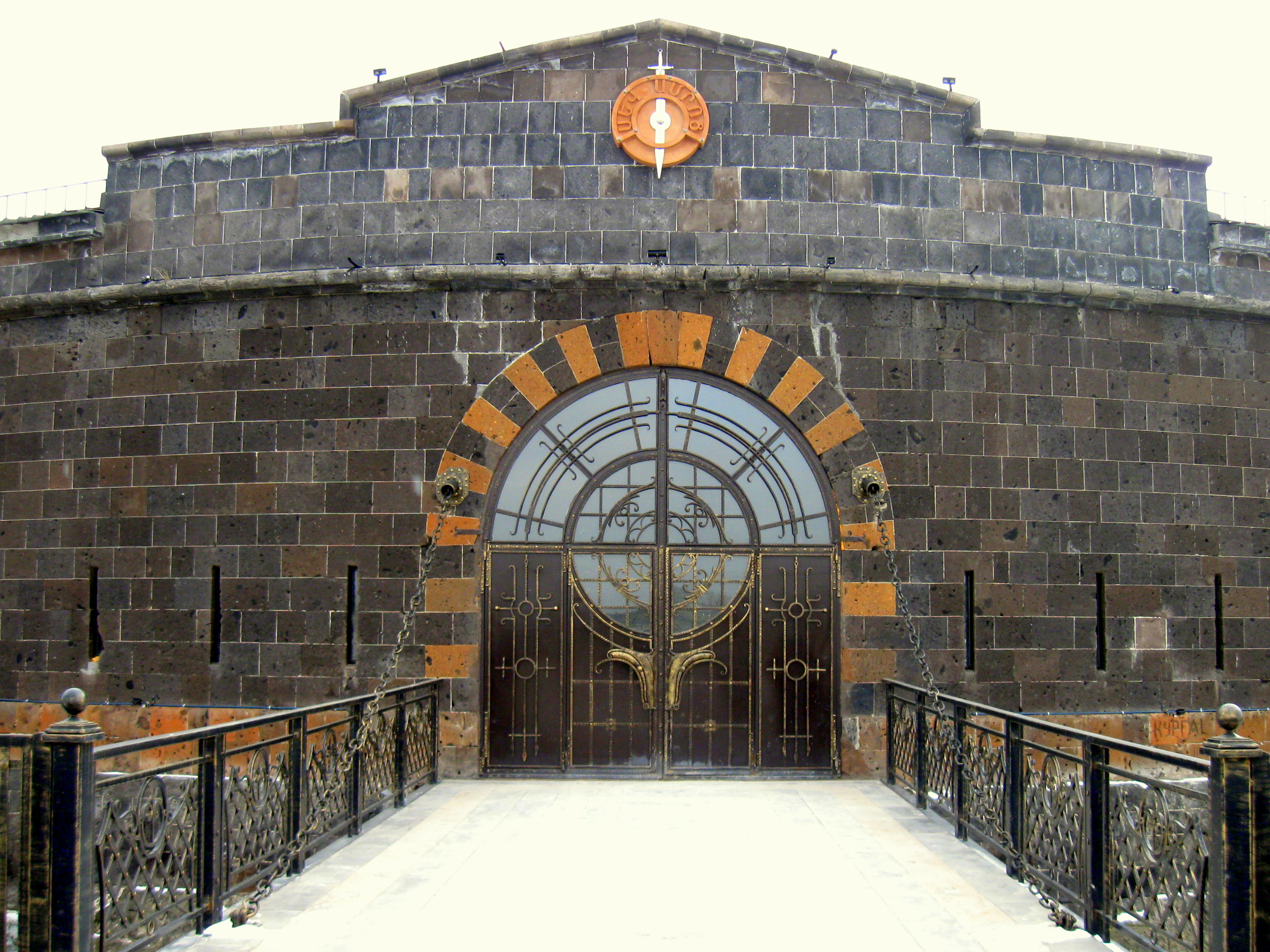 Sev Berd or Black Fortress (Armenian: Սև բերդ